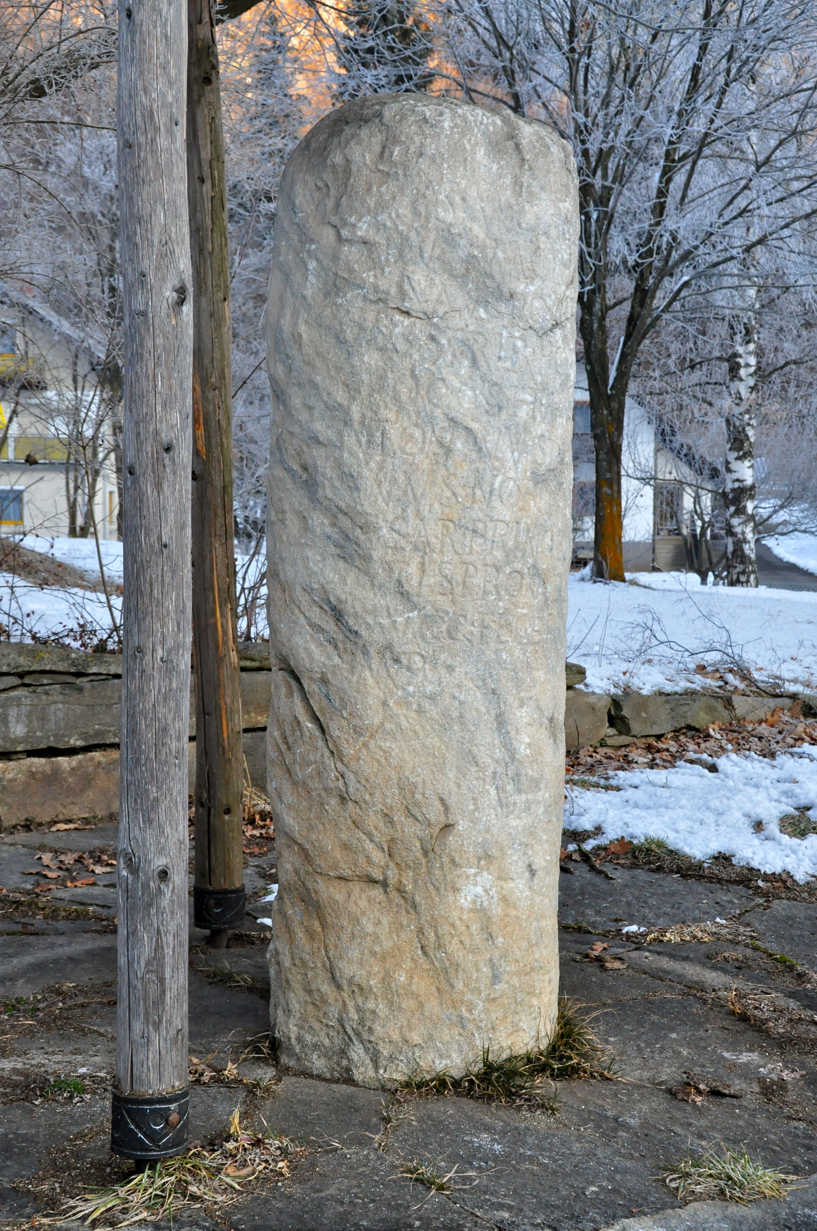 Roman milestone near Moellbruecke, municipality Lurnfeld, district Spittal an der Drau, Carinthia, Austria